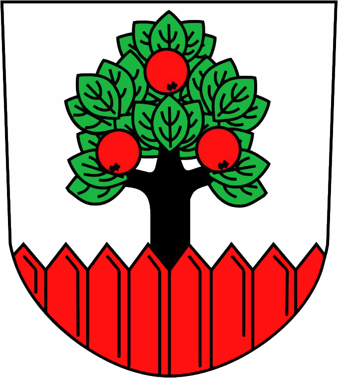 Municipal coat of arms of Jablůnka village, Vsetín District, Czech Republic.